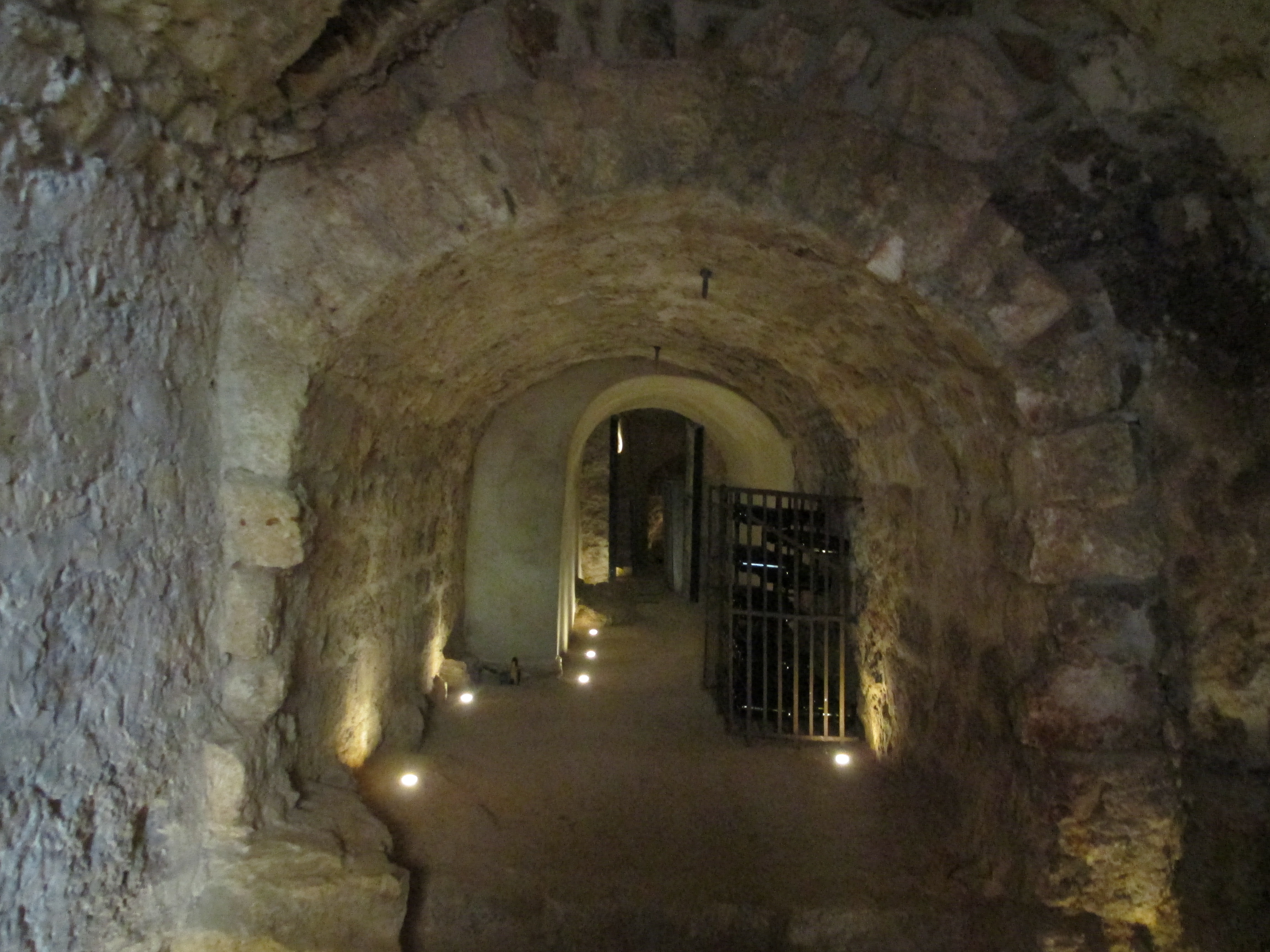 Aharonsohn house in Zikhron Ya'akov